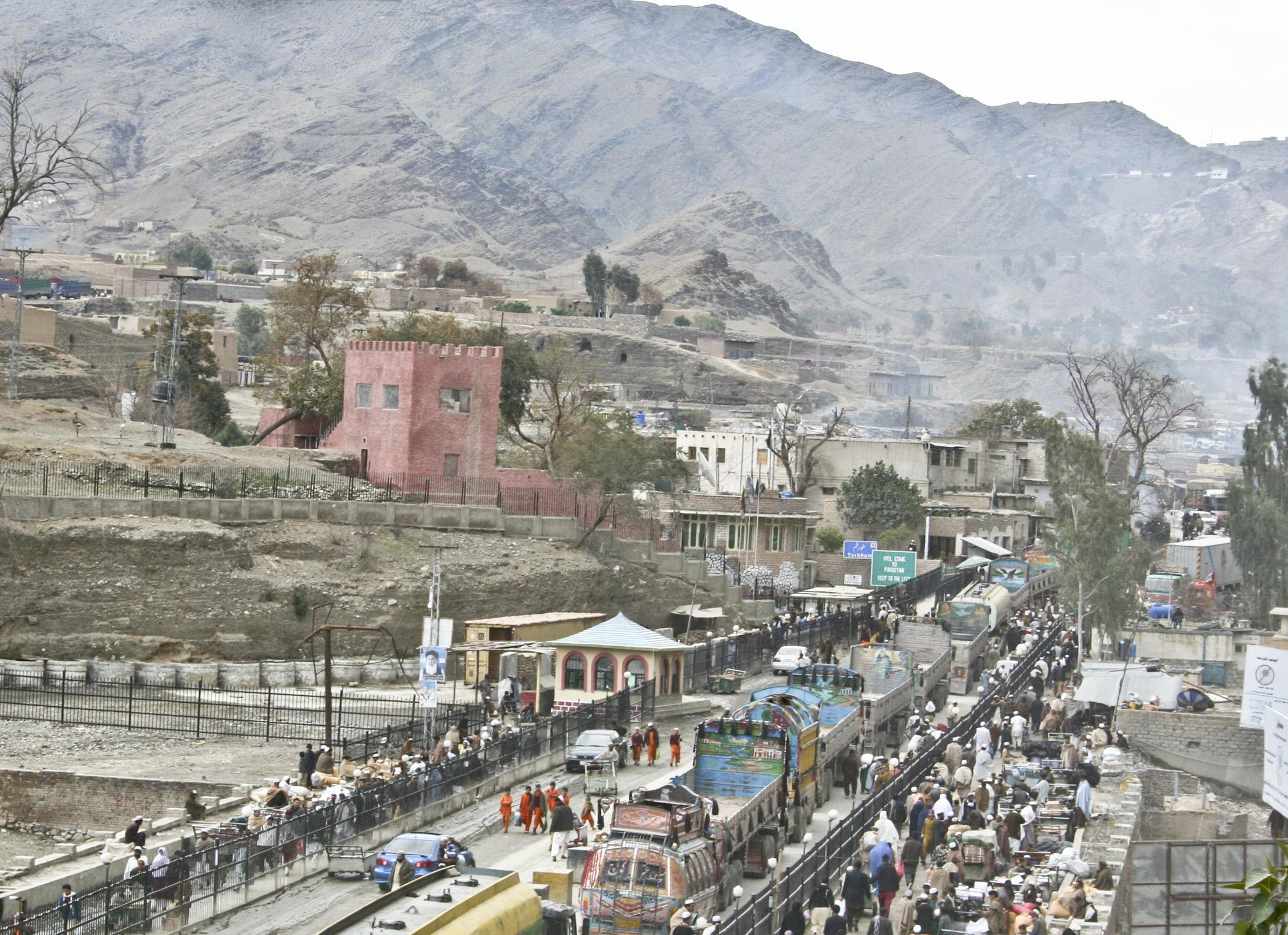 The view into Pakistan from the Afghanistan border at Torkham Gate March 7. As many as 10,000 people cross the border at the gate in a busy day, including between 1,000 and 2,000 trucks. (Photo ID: 376077)